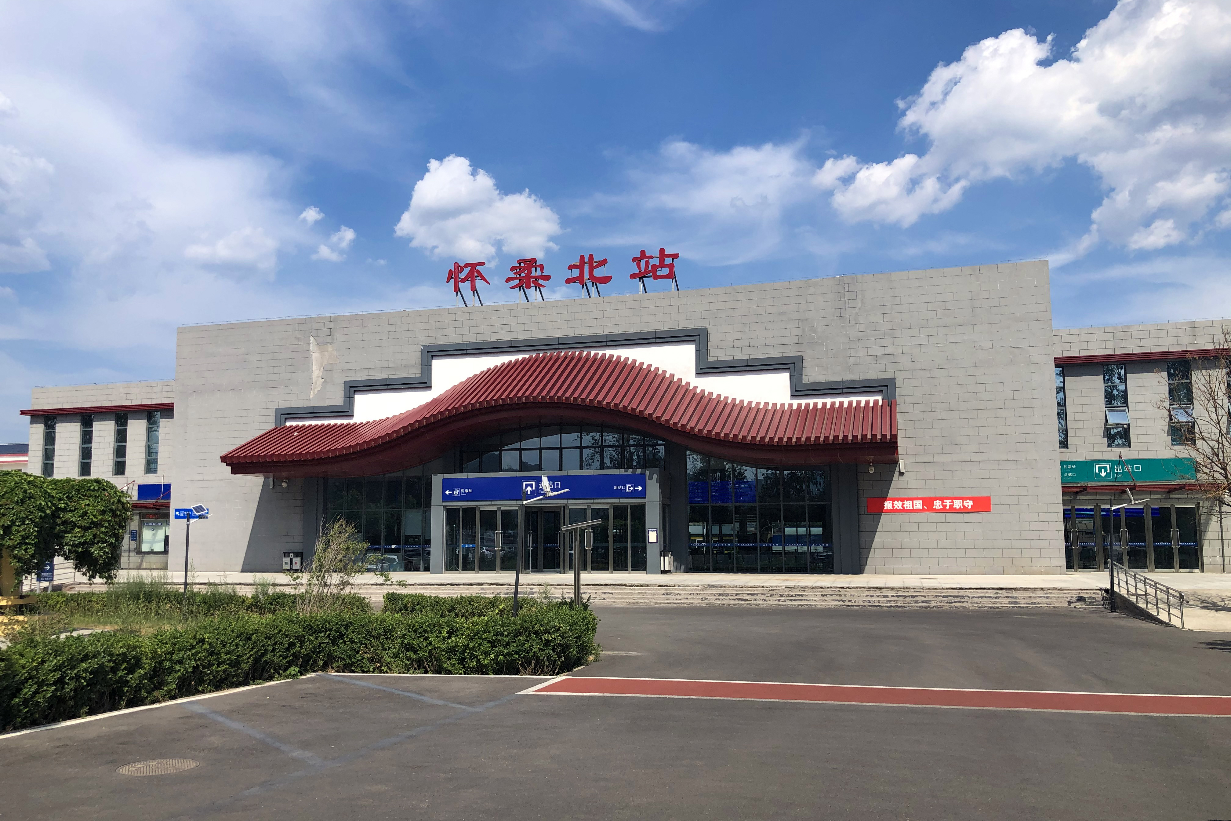 Thanks to H59, I finally made it here after 4 years!